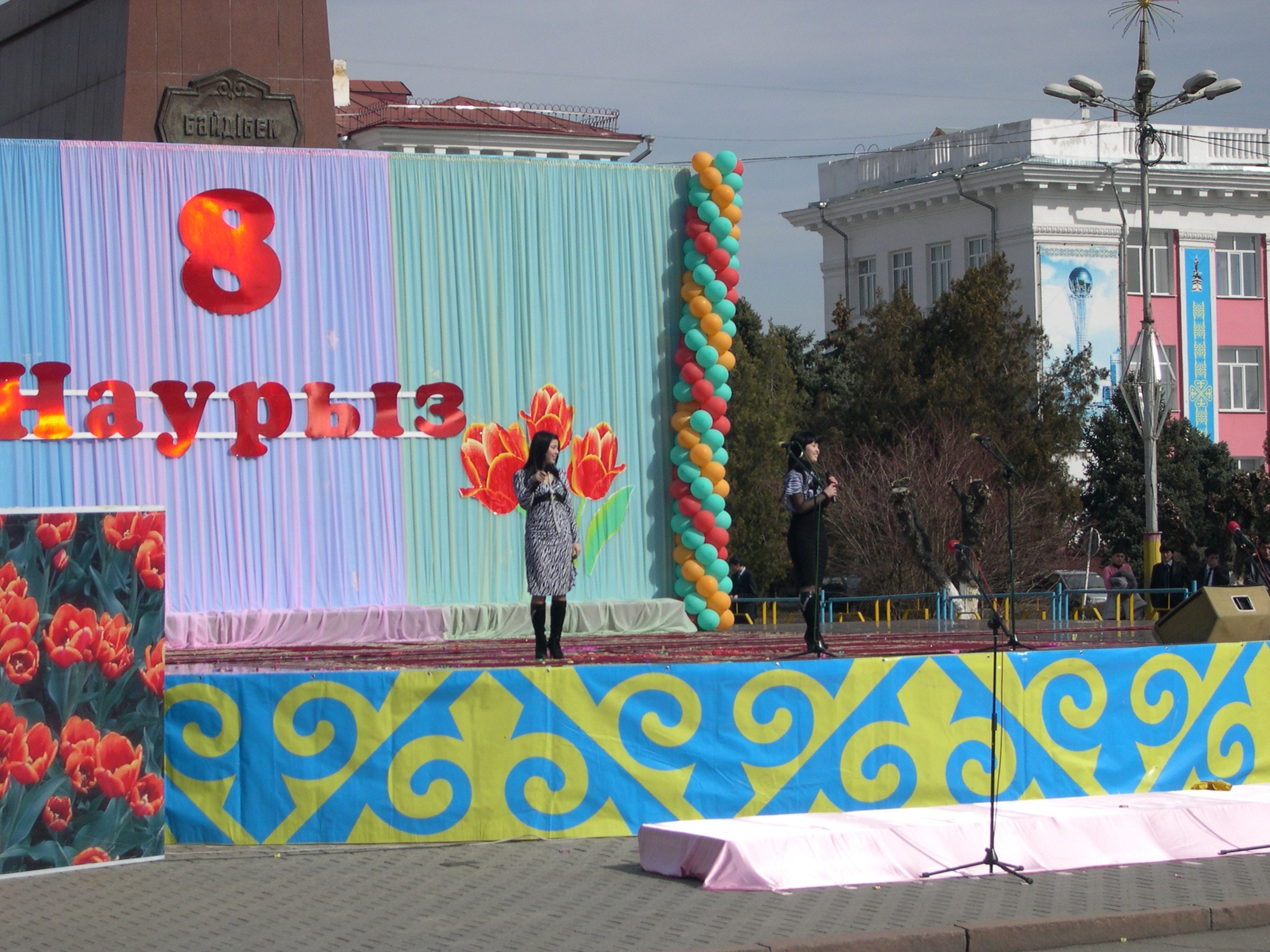 Women's Day MC